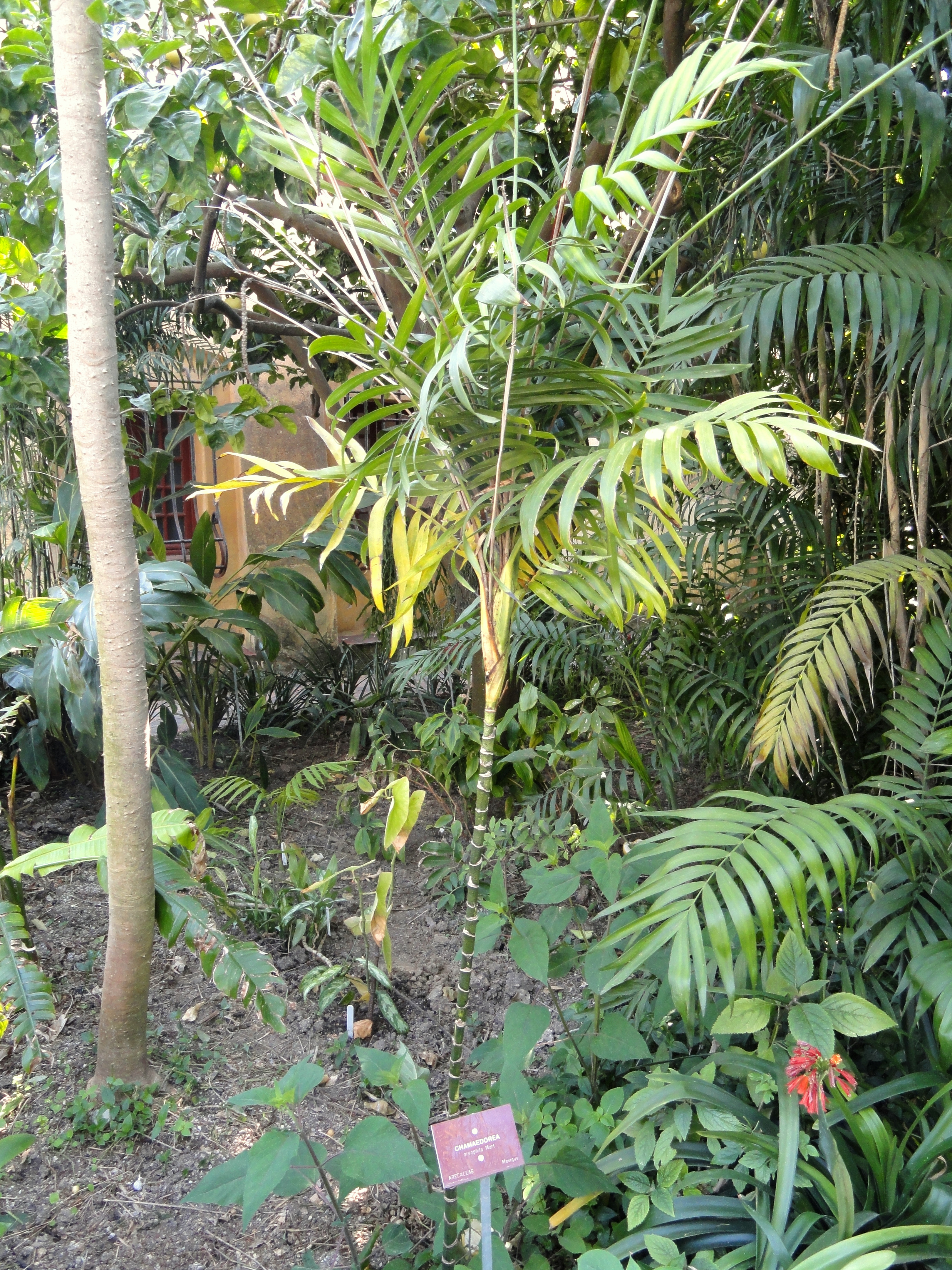 Chamaedorea oreophila specimen in the Jardin botanique du Val Rahmeh, Menton, Alpes-Maritimes, France.